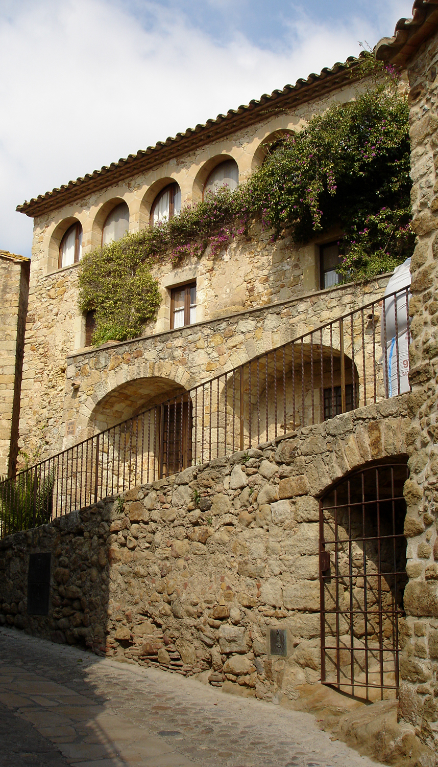 Pals (Girona, Spain)